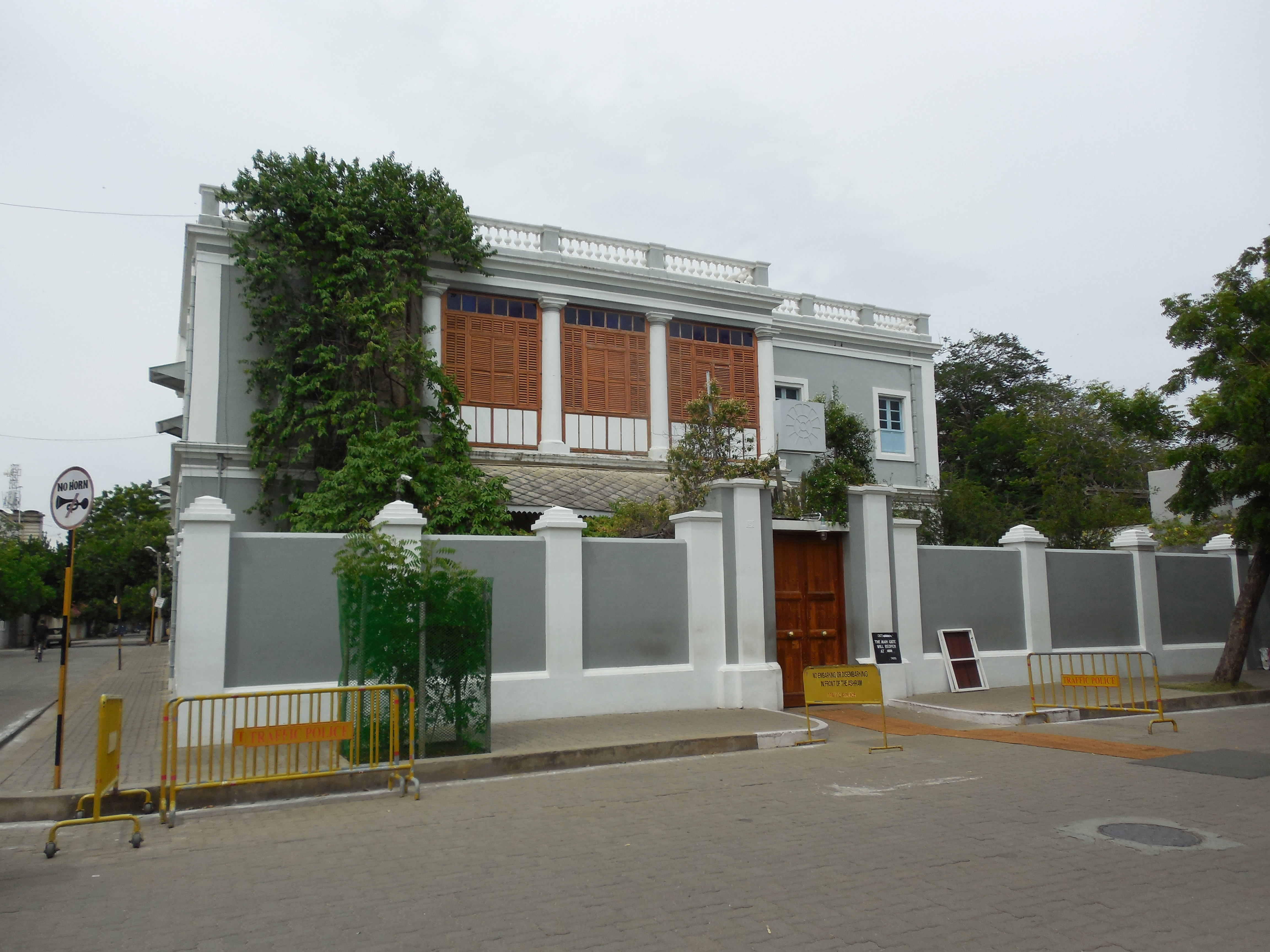 Sri Aurobindo Ashram in Pondicherry, India.